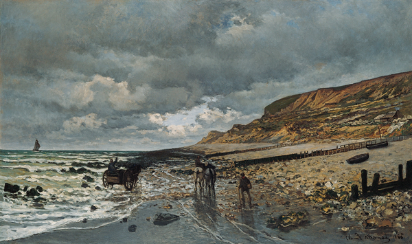 La Pointe de la Hève at Low Tide